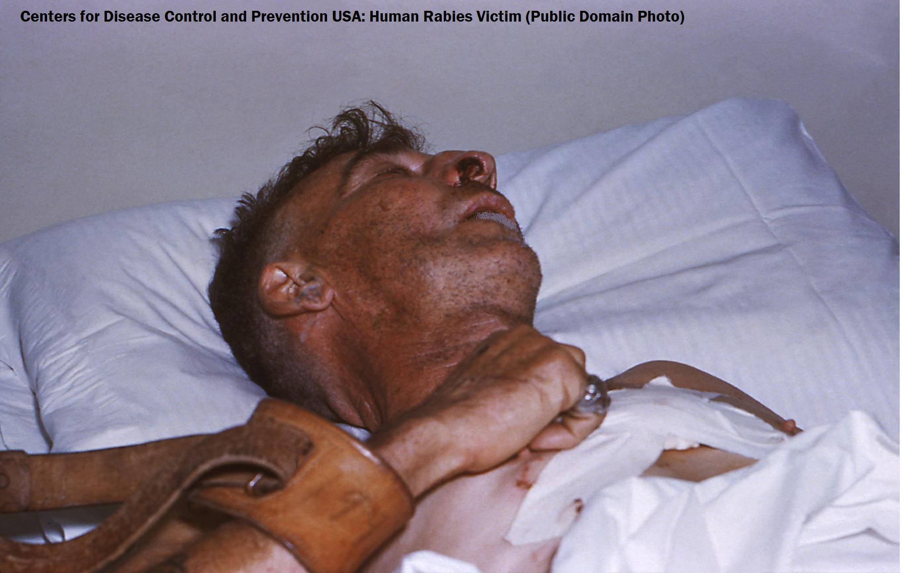 This patient presented with early, though progressive symptoms due to what was confirmed as the rabies virus.